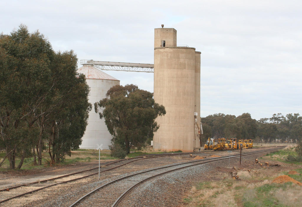 Wunghnu railway station, Victoria freight facilities: grain silos and loop siding. Track machines in loop, platform was to the right